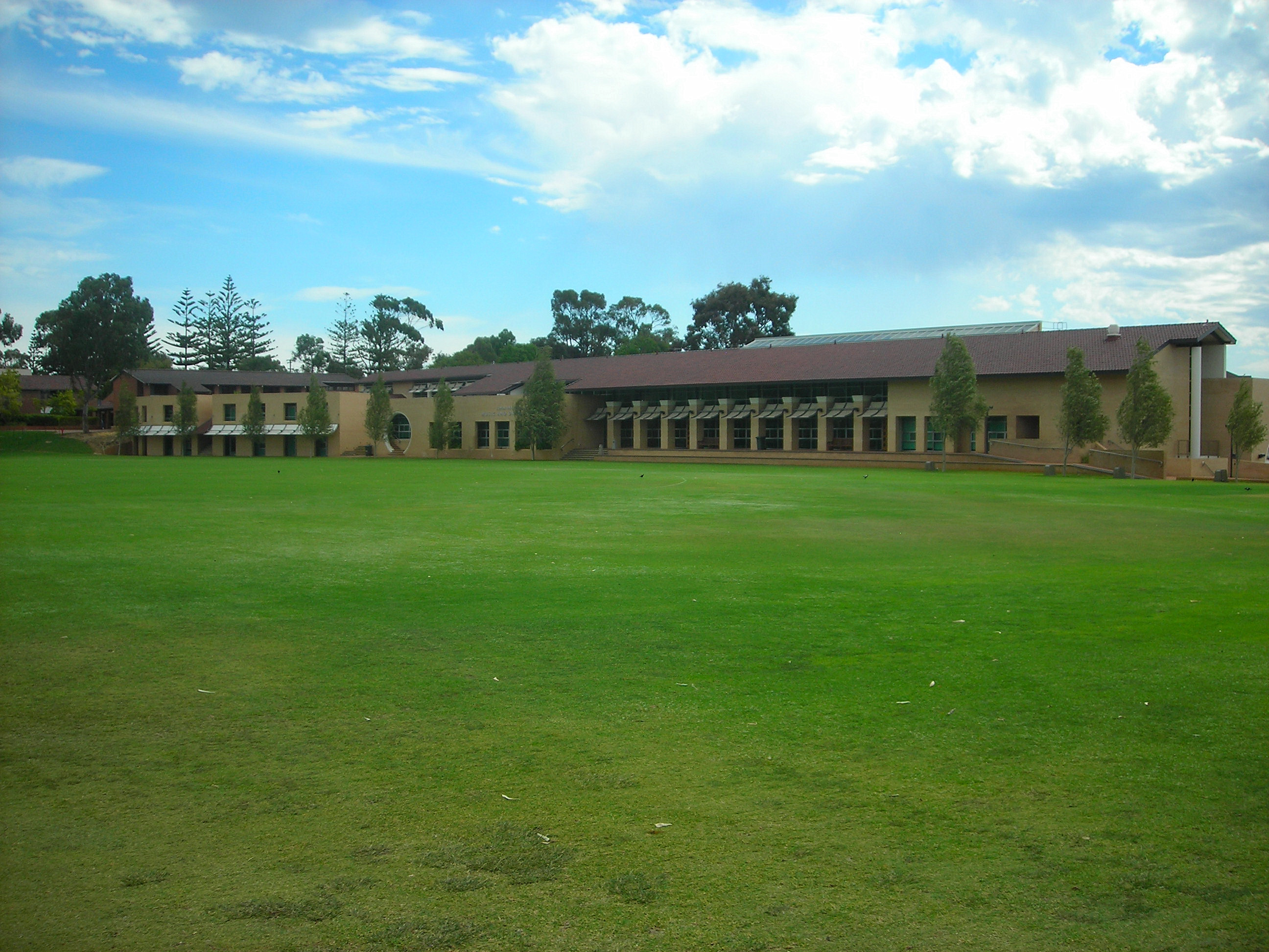 Picture I took at Hale School, Perth of the John Inverarity Music and Drama Centre